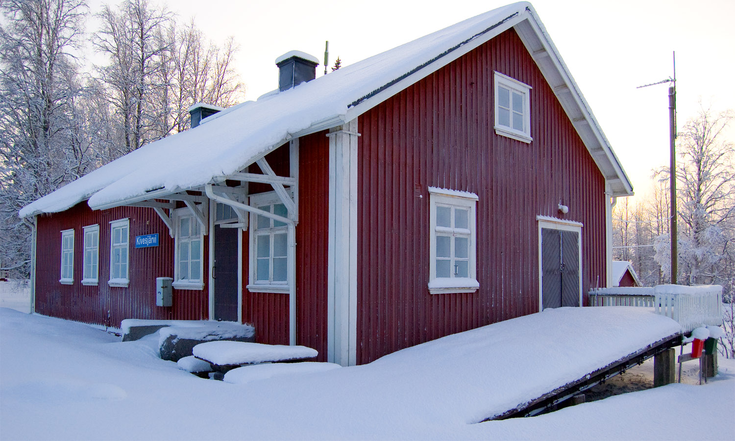 Kivesjärvi railway station, Paltamo, Finland. (Translation for kivesjärvi is testicle lake).